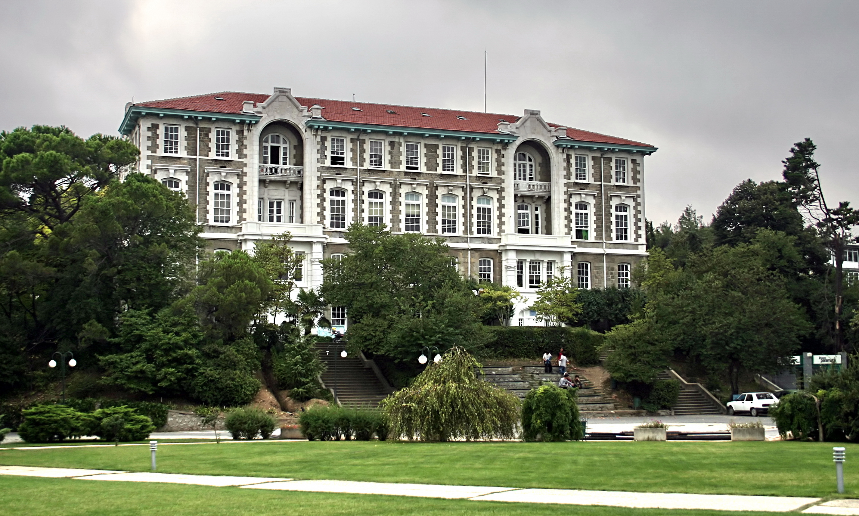 Bosphorus University / Boğaziçi Üniversitesi, Istanbul, Turkey. Photo by Bertil Videt